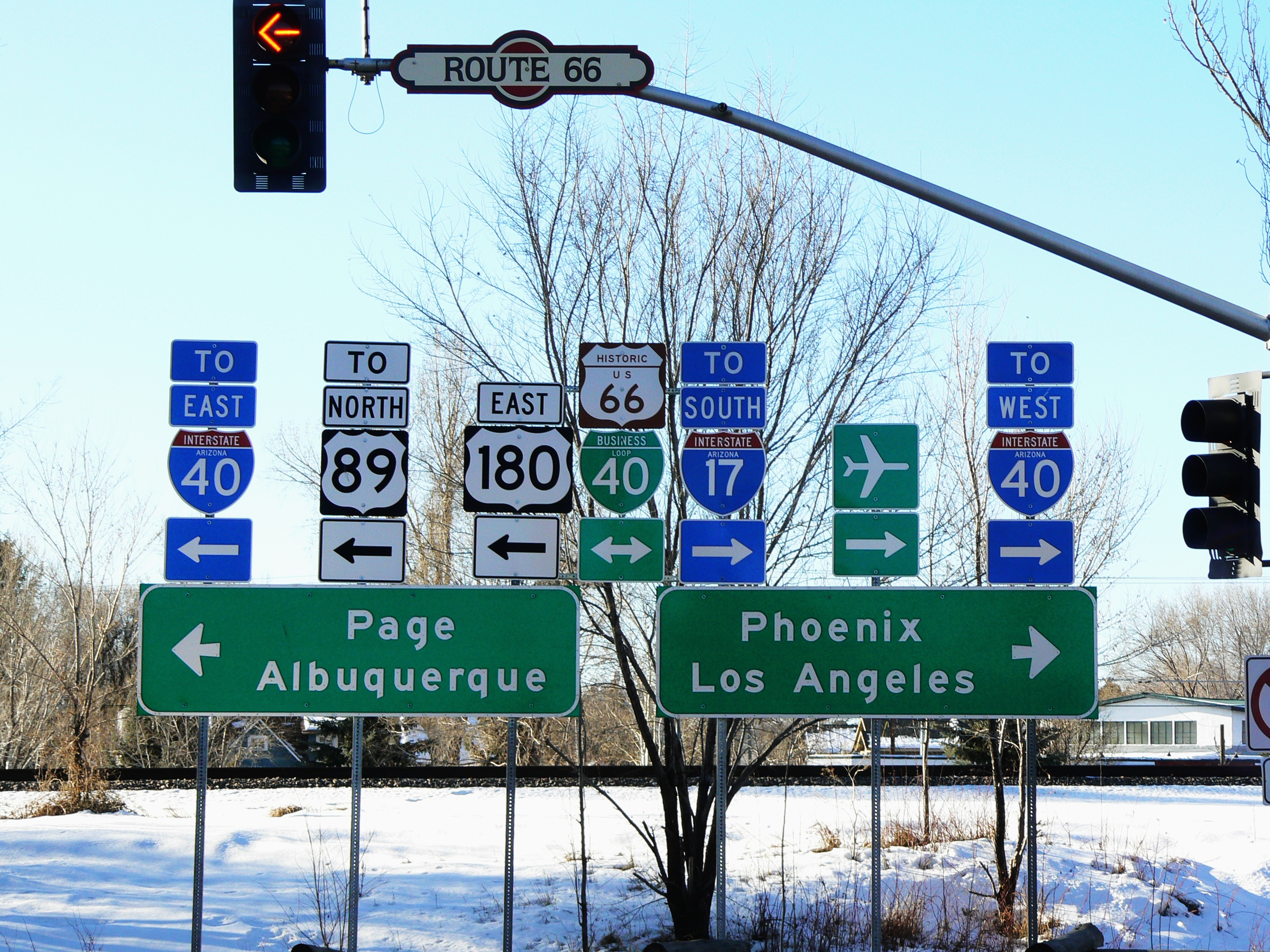 Route 66 in Flagstaff, Arizona. Where all the major highways meet.